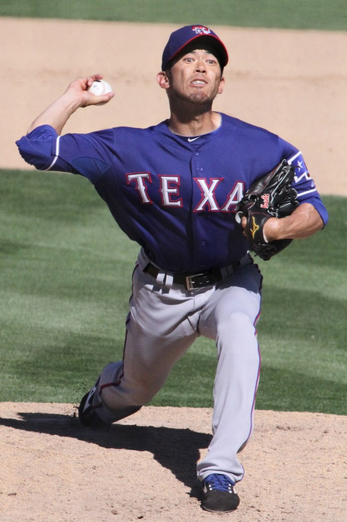 Yoshinori Tateyama Texas Rangers 2013 Spring Training